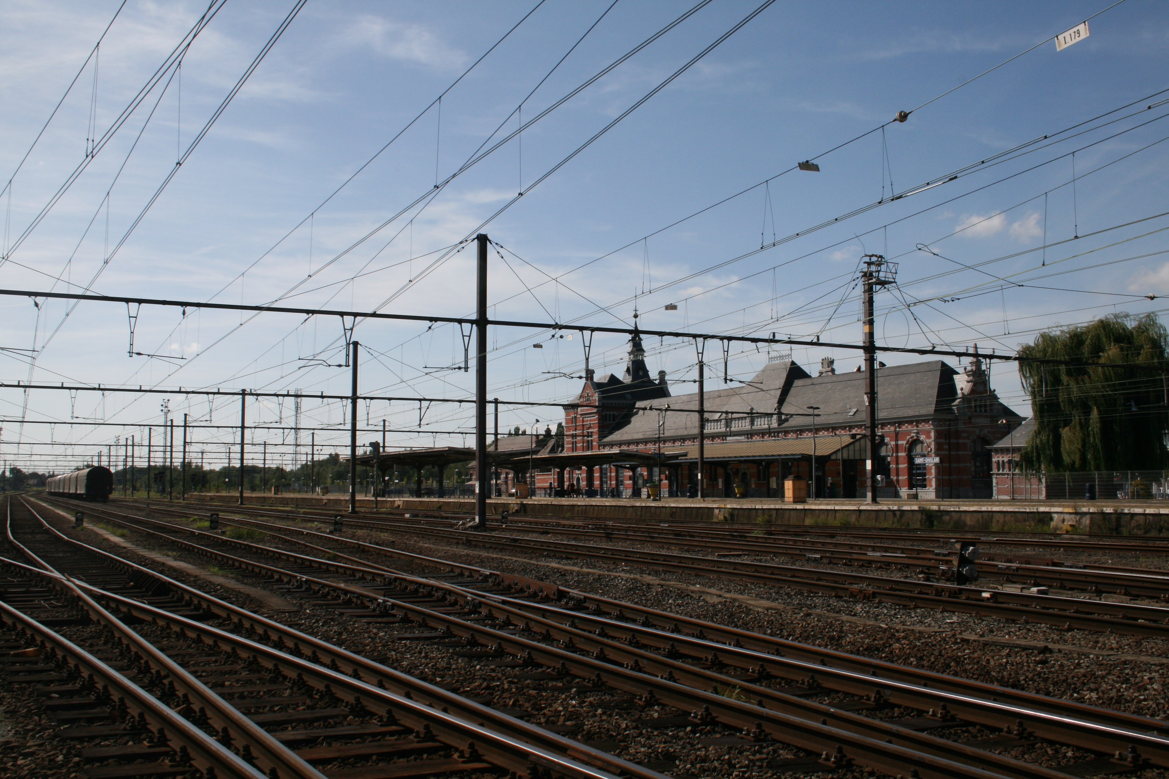 The Saint-Ghislain station, on belgian railway line 97 Mons - Quiévrain - (France).